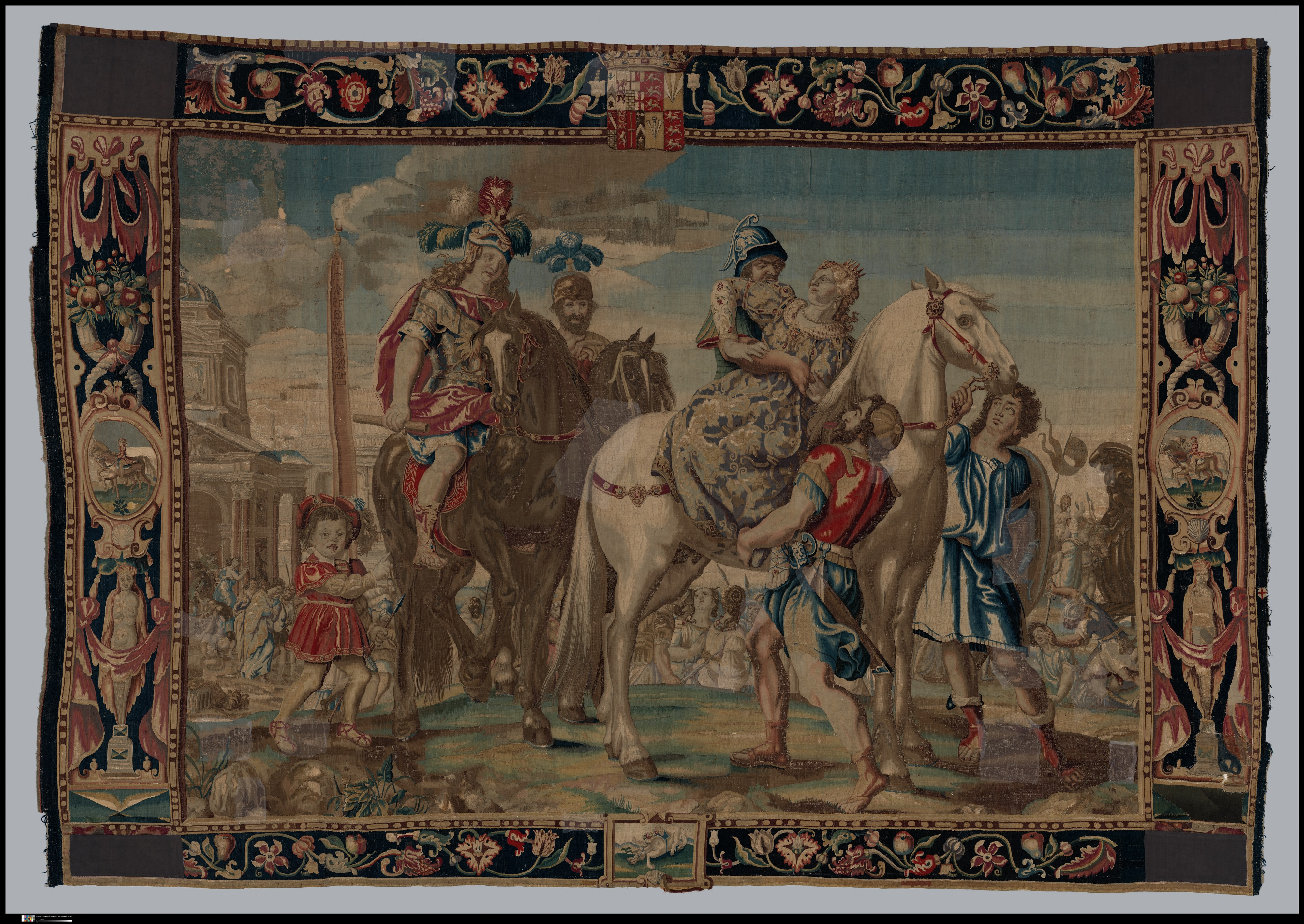 British, probably Mortlake; Tapestry; Textiles-Tapestries